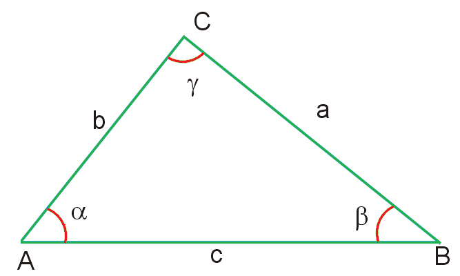 Triangle